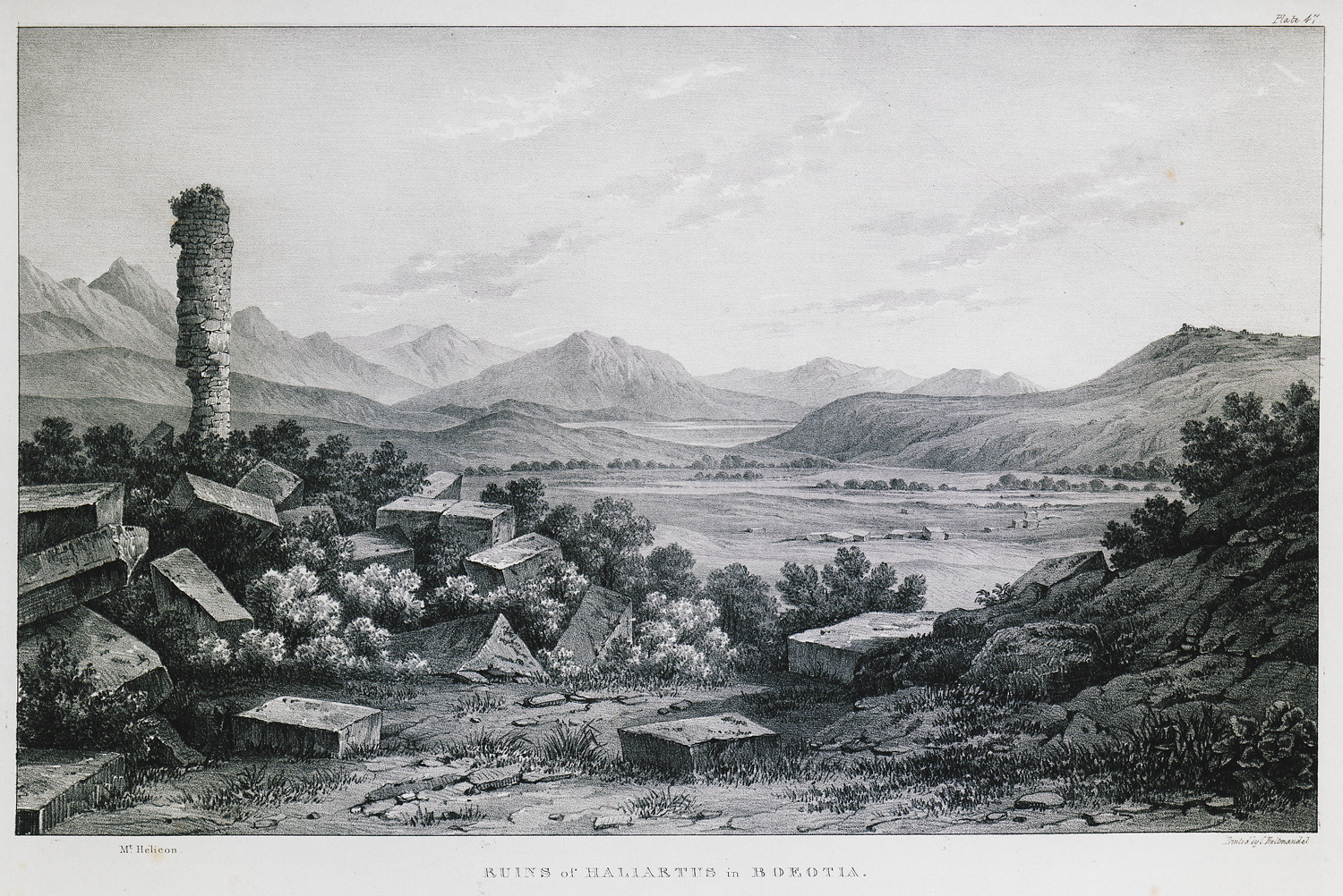 Edward Dodwell. Views and Descriptions of Cyclopian, or, Pelasgic Remains, in Greece and Italy; with Constructions of a later Period, London, Adolphus Richter, MDCCCXXXIV (1834)